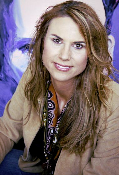 Amazon Eve. Background blue with large clear holes. Scarf design concentric circles. Tan jacke.